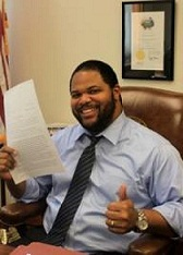 Transparency Committee Member Eric Johnson (Dem/Dallas)